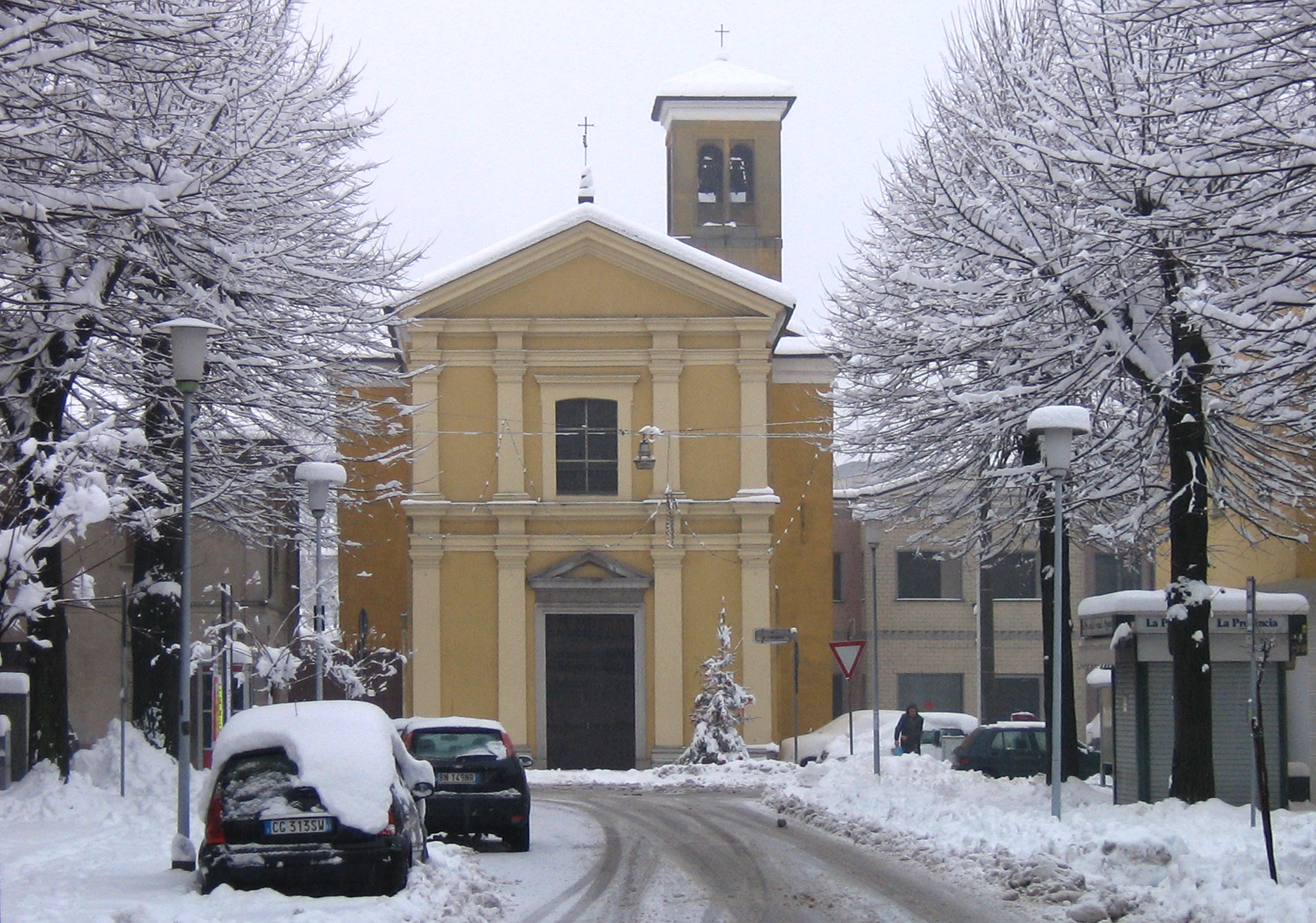 Soresina (Province of Cremona, Italy): Madonna della Mercede church (often called Madonnina) built in late 15th century.